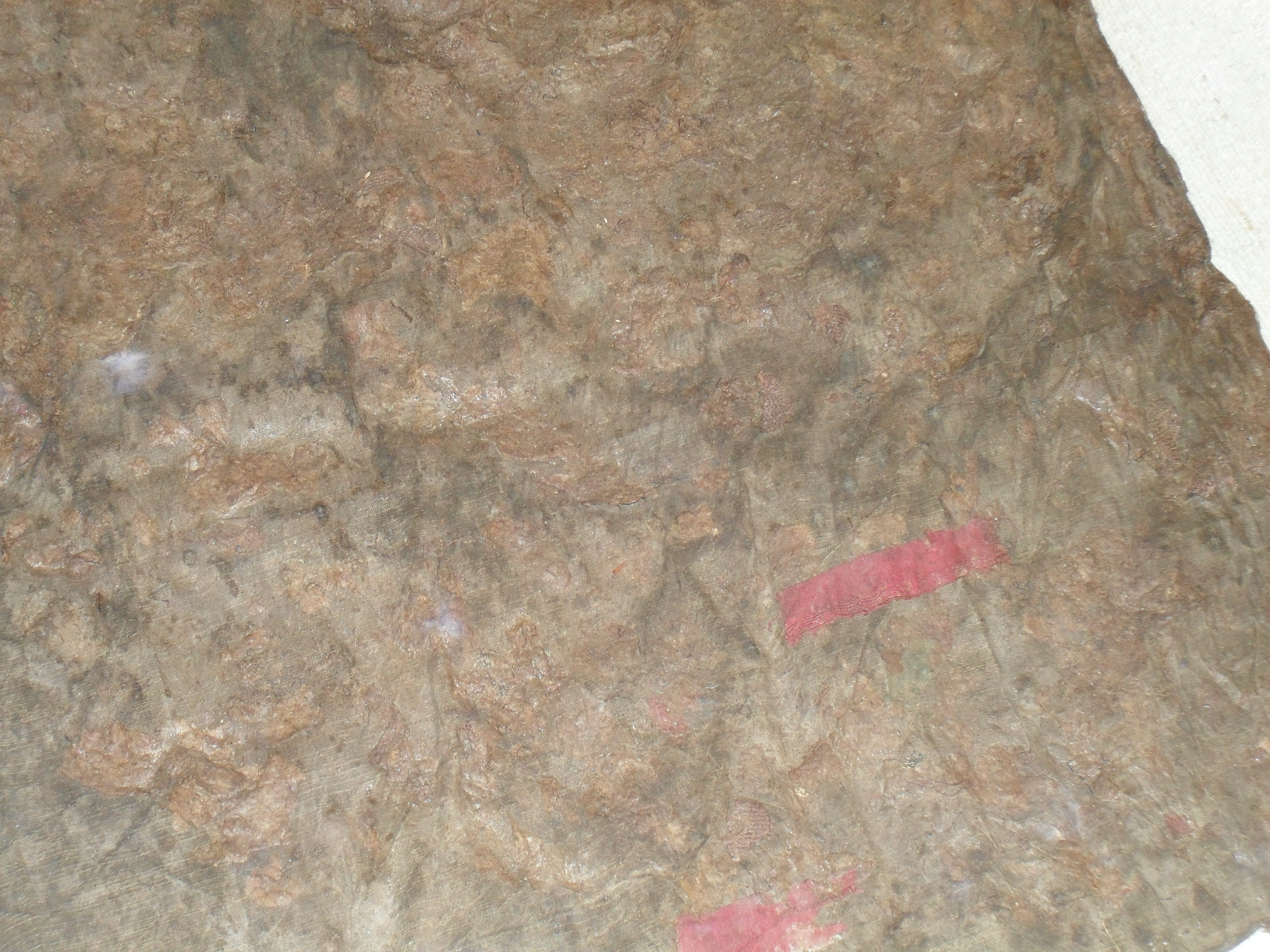 Sections of taffeta and silk on the right sleeve of the robe (Trier,14 April 2012)